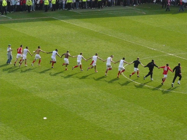 Forest get promoted